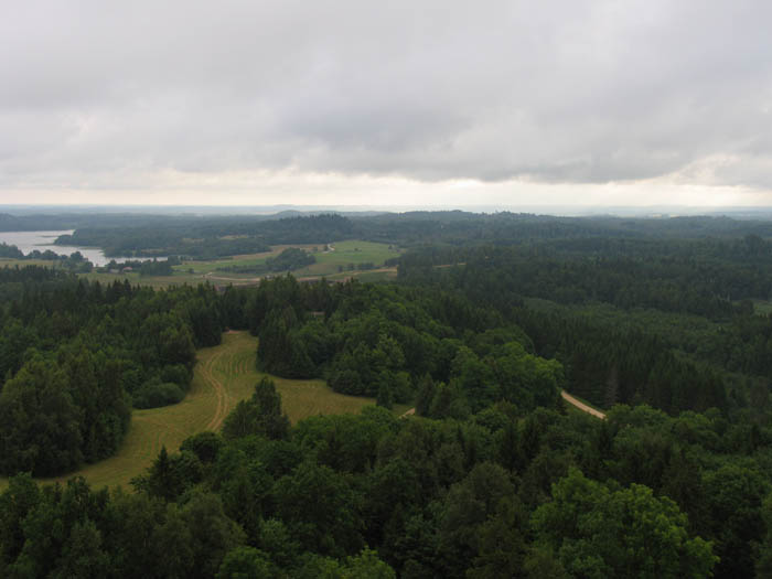 View from atop the tower of Gaizinkalns